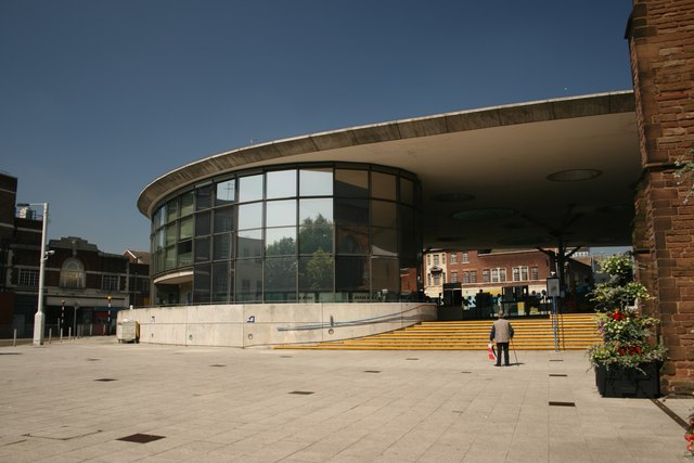 Part of Walsall Bus Station, St Paul's Street, Walsall, West Midlands, seen from the east. Built in 2001 to replace an earlier bus station built in 1937. The buttress on the right is part of the front of The Crossing at St Paul's.